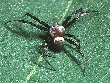 male Argiope aemula from Okinawa.